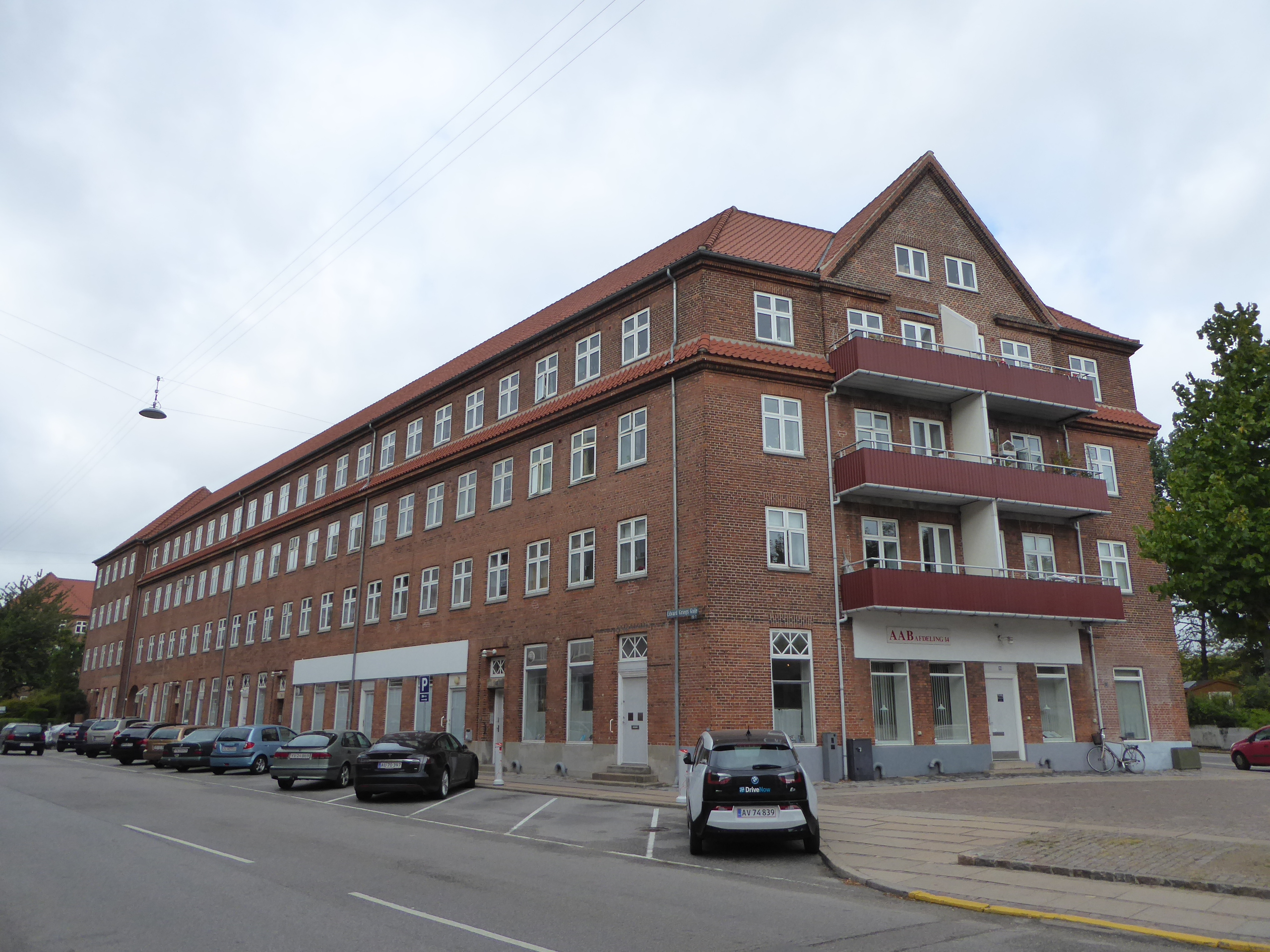 The housing cooperative AAB Afdeling 14 at Edvard Griegs Gade in Østerbro in Copenhagen.